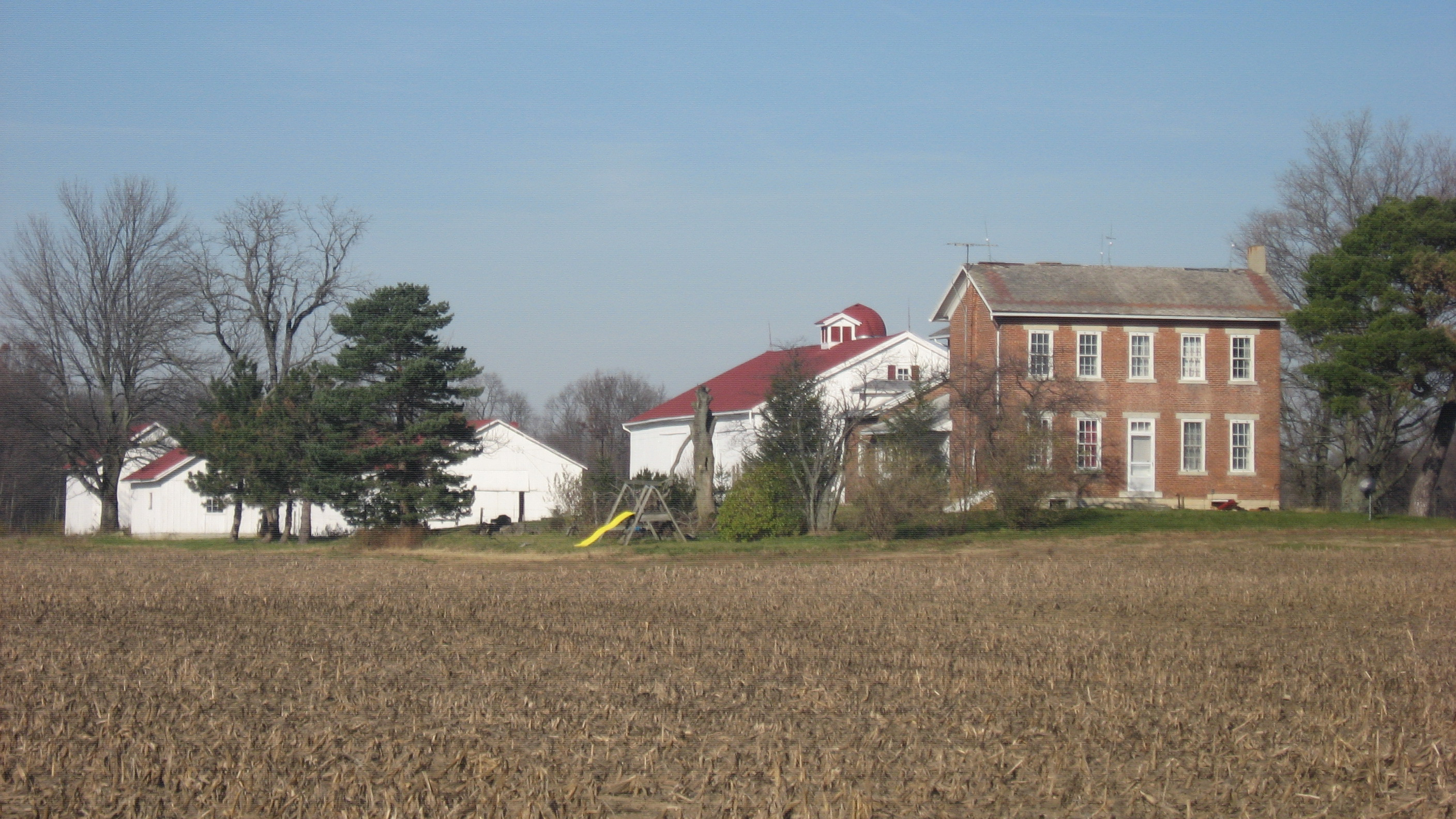 Barns and the farmhouse at the George Bixler Farm, located at 13213 Providence Pike south of Brookville in Perry Township, Montgomery County, Ohio, United States. Built in 1852 (house) and in later years (barns), the farmstead is listed as a historic district on the National Register of Historic Places.